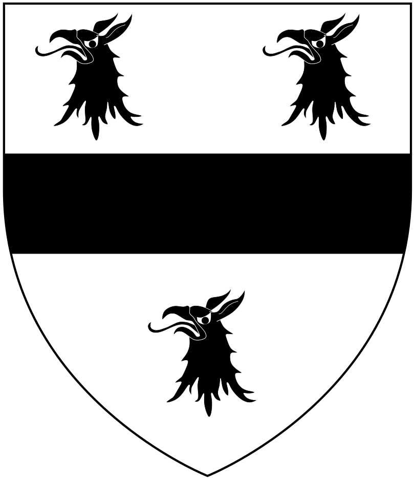 Arms of Hals of Kenedon in the parish of Sherford, Devon: Argent, a fess between three griffin's heads erased sable (Vivian, Lt.Col. J.L., (Ed.) The Visitations of the County of Devon: Comprising the Heralds' Visitations of 1531, 1564 & 1620, Exeter, 1895, p.439; Tinctures reversed per Pole, Sir William (d.1635), Collections Towards a Description of the County of Devon, Sir John-William de la Pole (ed.), London, 1791, p.485)